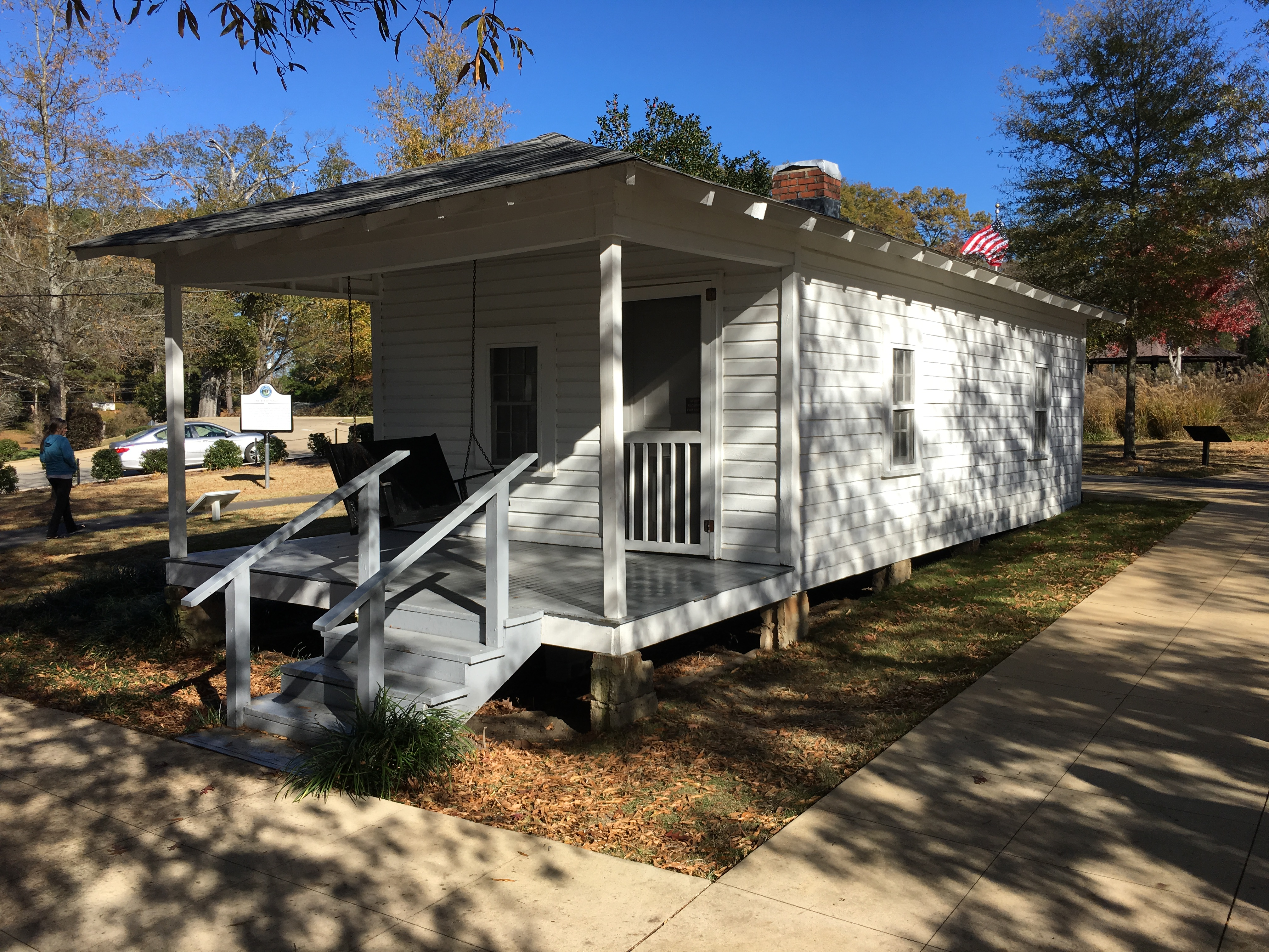 The Elvis Presley Birthplace in Tupelo, Mississippi in November 2017